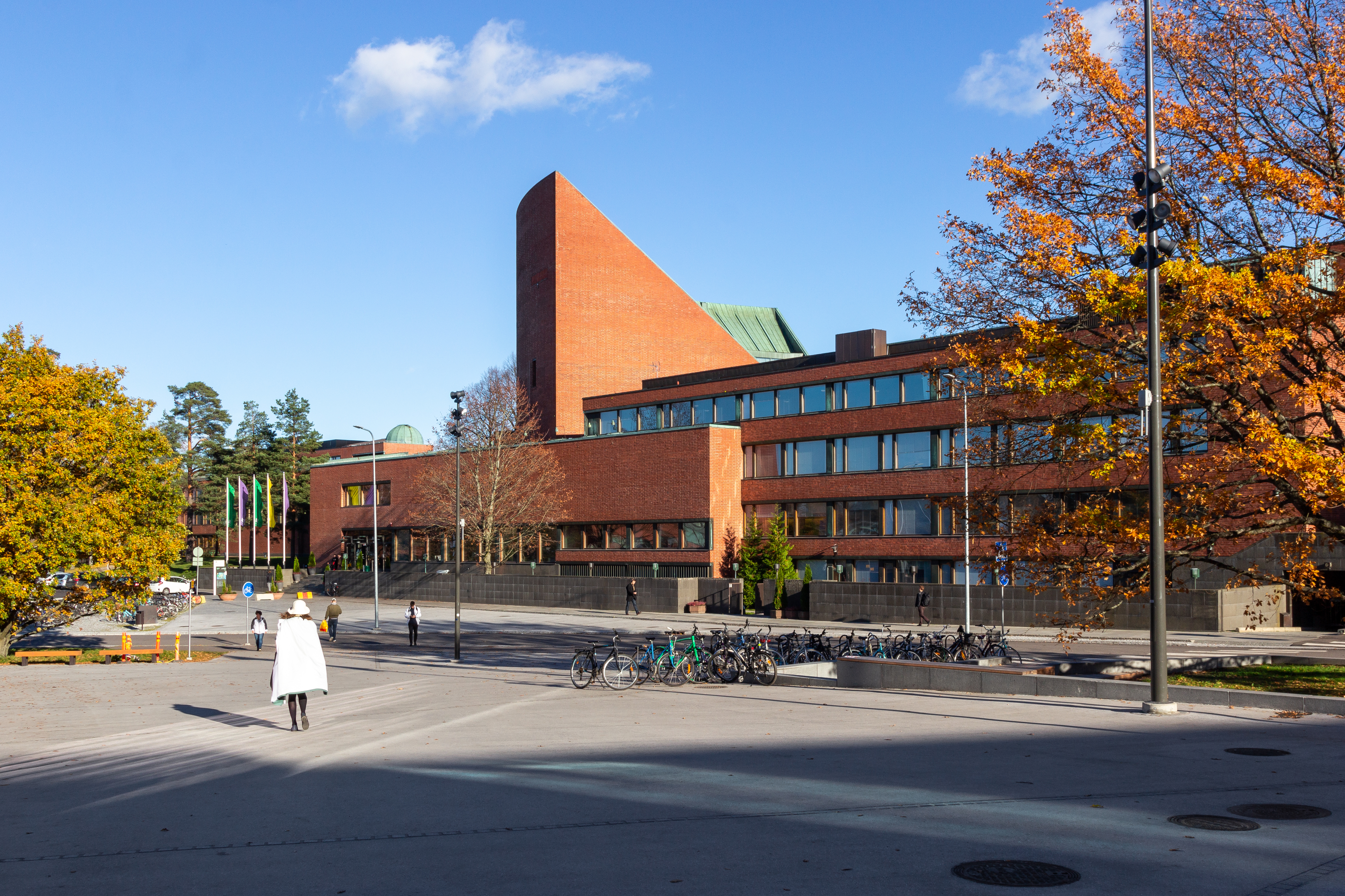 Helsinki University of Technology Main Building (Aalto University Undergraduate Center / Otakaari 1) in Otaniemi, Espoo, Finland in October 2018.